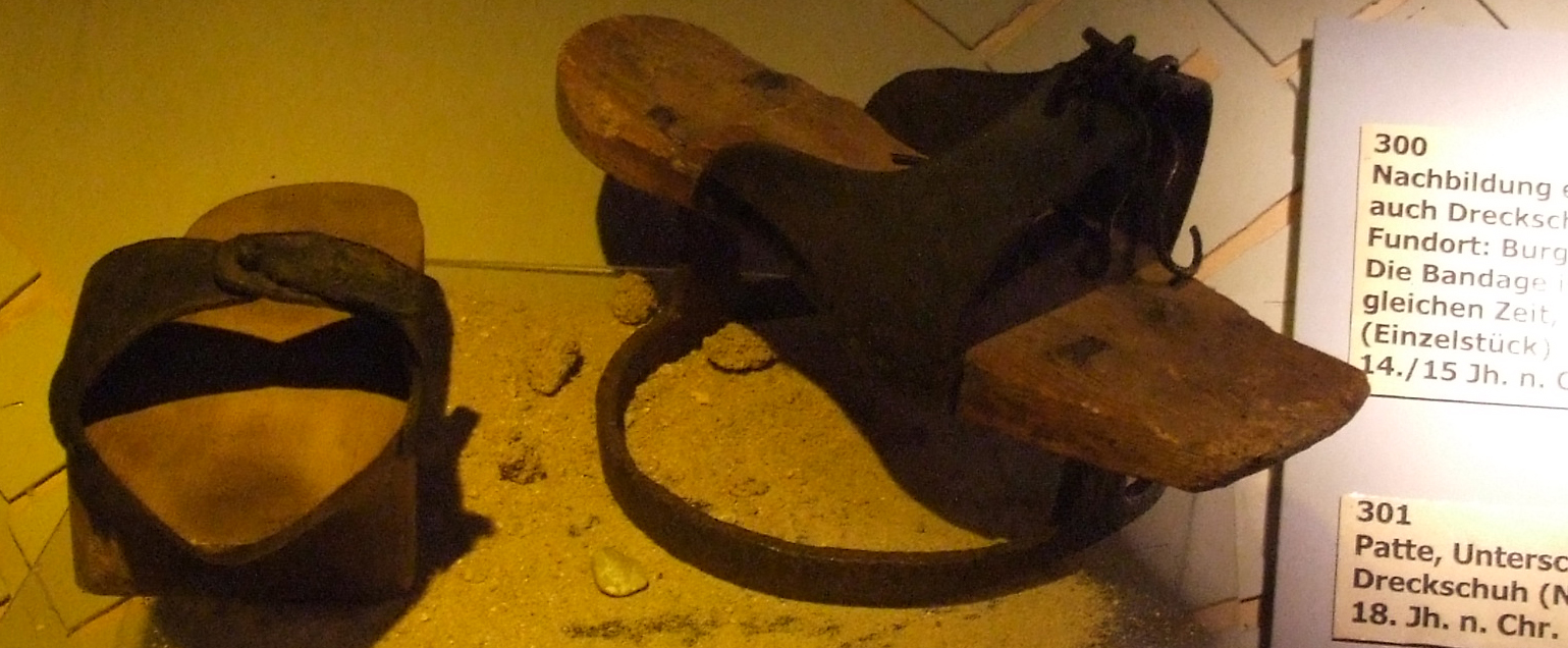 In the Middle Ages and until the 18th Century, fine leather shoes were used. To protect such shoes from fouling when worn outdoors (due to human waste, animal excrement and other filth), additional wooden and/or metal overshoes were used. Here are two examples of clogs, or "patten" shoes, displayed at the Deutsches Schuhmuseum Hauenstein, Rhineland-Palatinate, Germany, where these examples were photographed. Left, a find from the castle Uda, EMCDDA, 14-15th Century, leather-banded original wood, partial reconstruction. Rright, wood and iron, Trippe, Netherlands 18th Century